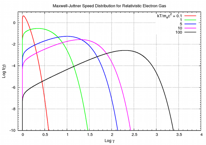 Plot showing Maxwell-Juttner distribution (relativistic Maxwellian) for electron gas at different temperatures.